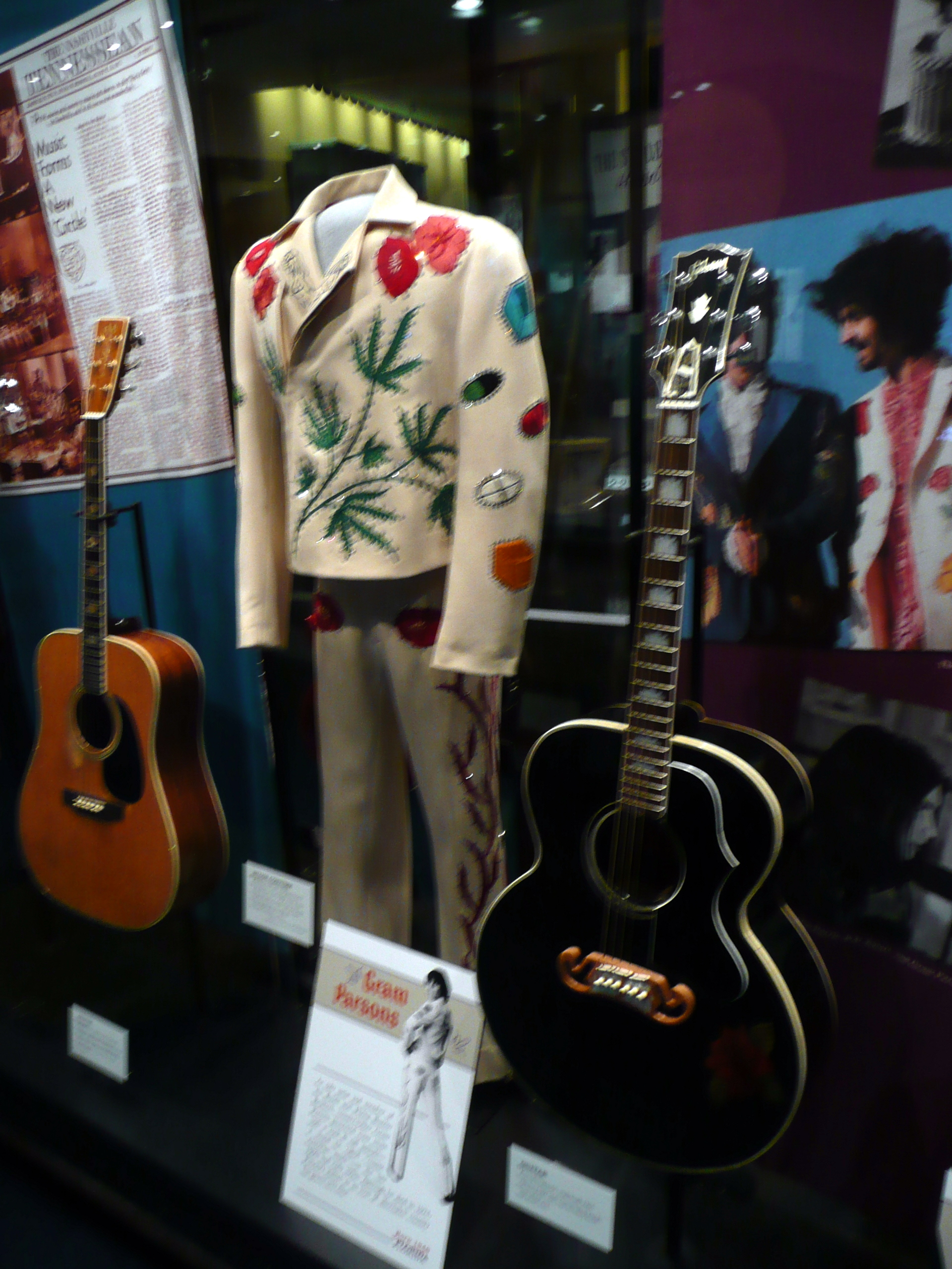 Gram Parson's Nudie Suit at the Country Music Hall of Fame in Nashville